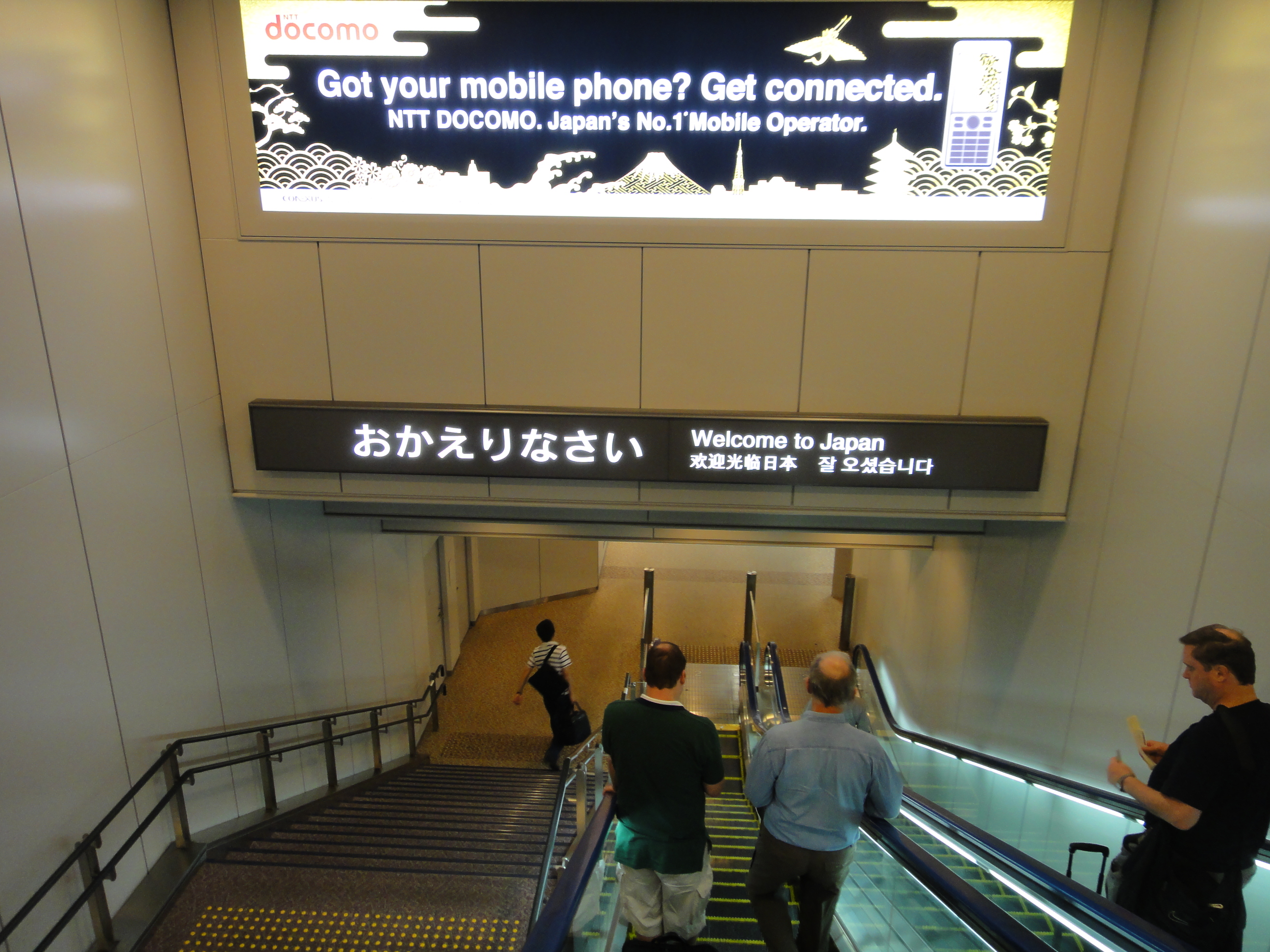 It is famous for Japanese, and displays "Welcome home" for the Japanese and "welcome to Japan" for the foreigner.